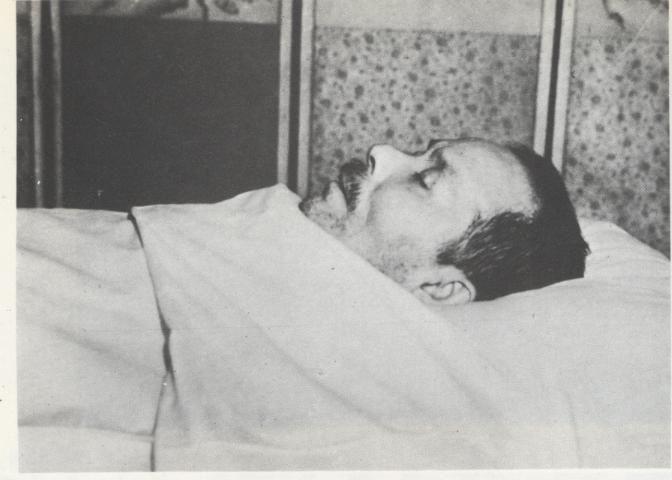 Death of Incheon Kim Seong-su(Korean Independent activists, journalists, educators)